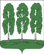 Berezovsky rayon (Khanty-Mansia), coat of arms